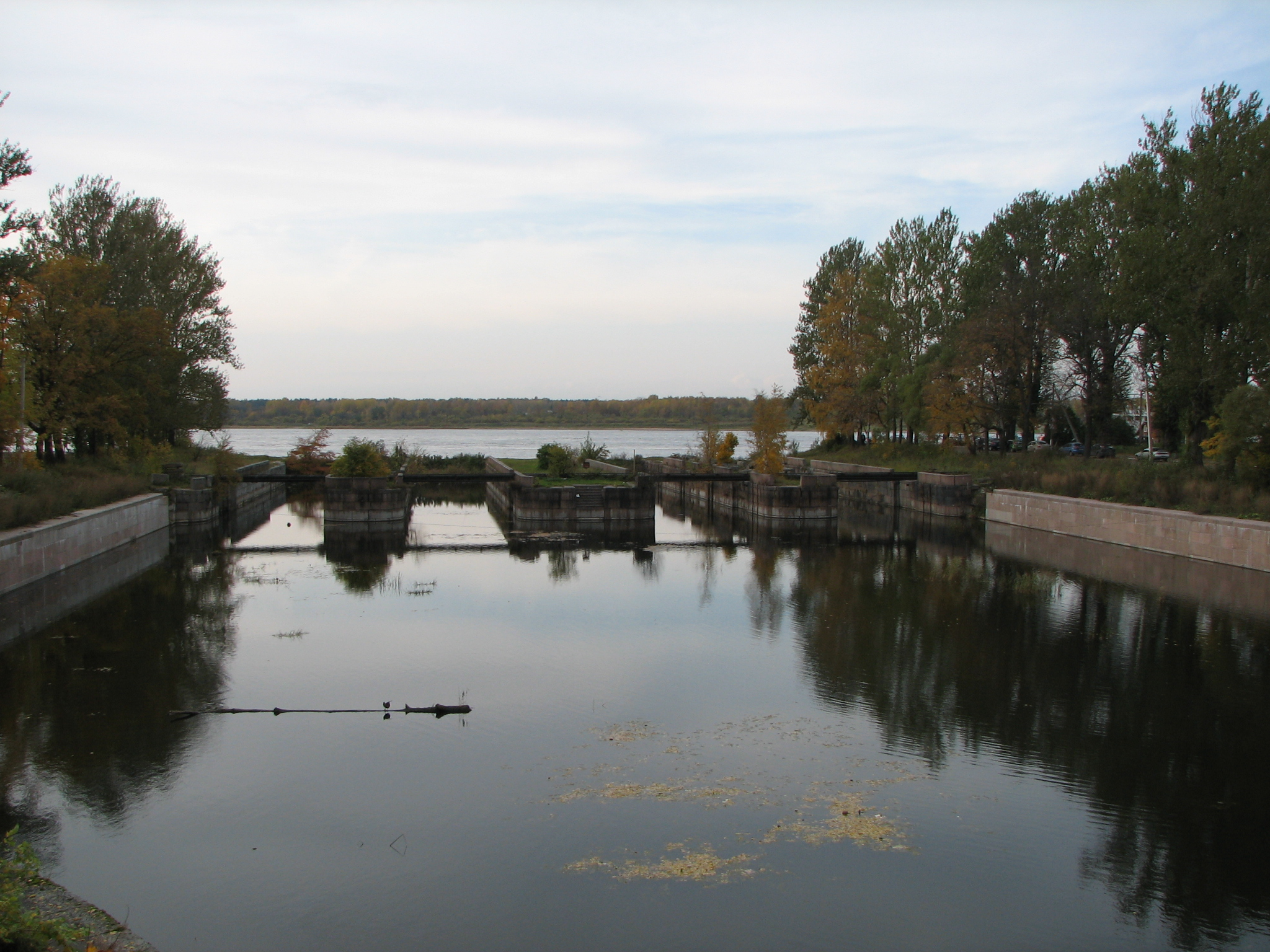 Old Ladoga Canal Lock in Shlisselburg, 2008